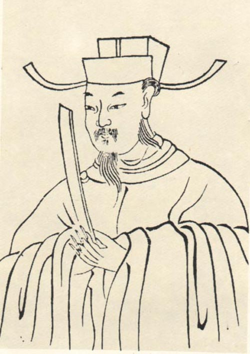 Li Sui Qiu, politician of the Ming Dynasty.